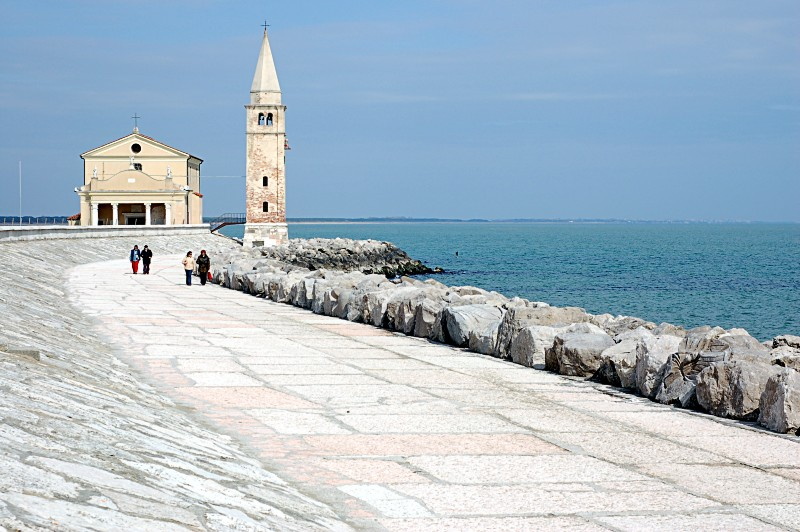 Saint Mary's Chapel, Caorle, Italy.